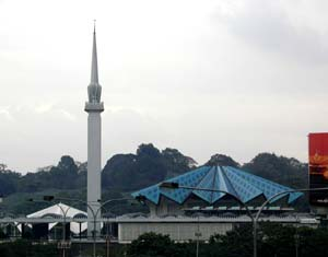 National Masjid (Mosque) of Malaysia, situated in Kuala Lumpur. Shot using an Olympus 2000Z digital camera in 2000. Photographer : User:Willsmith